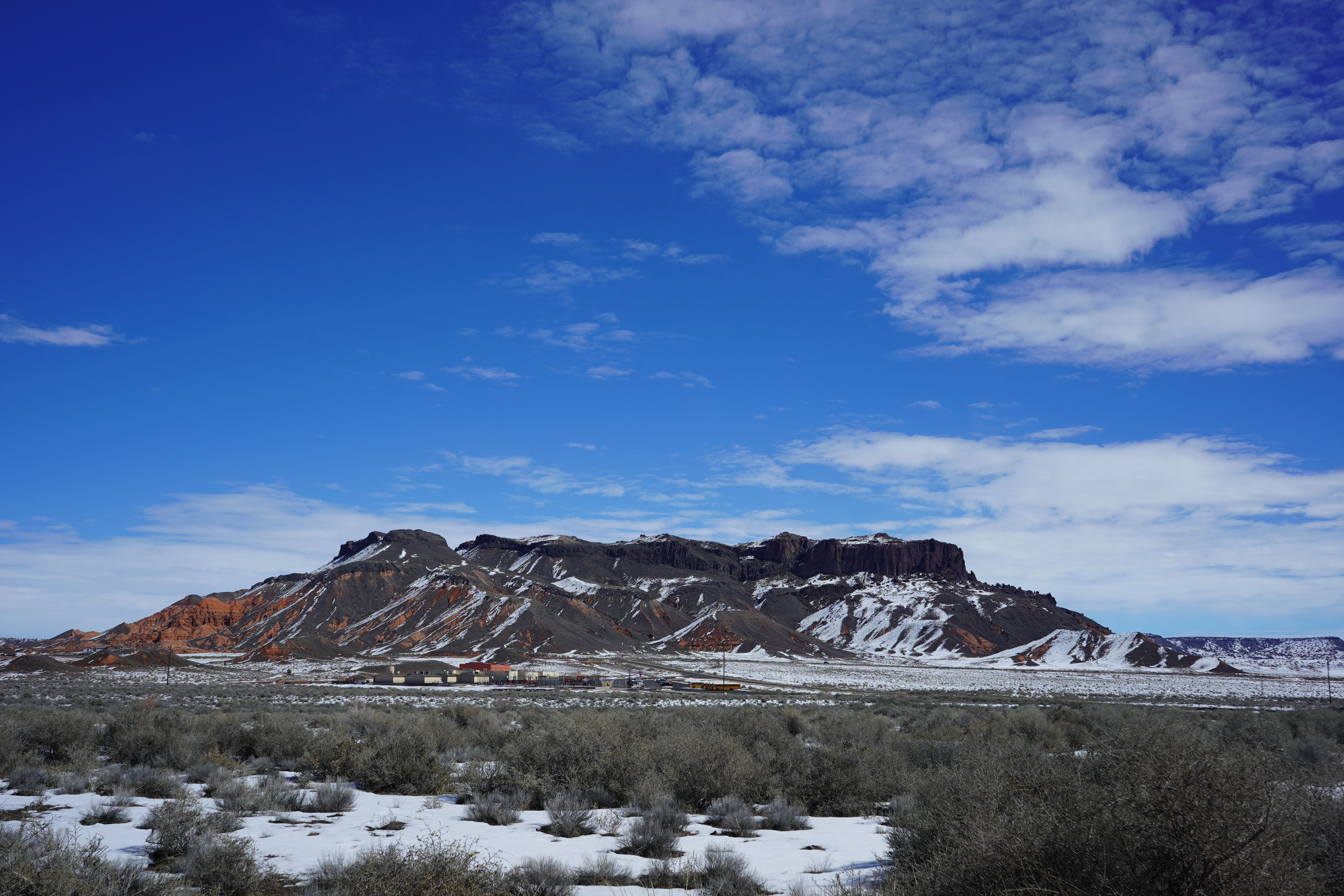 The photograph shows Bidahochi Butte with Indian Wells Elementary School below. Photograph was taken on 2019-02-27T19:33:11Z.